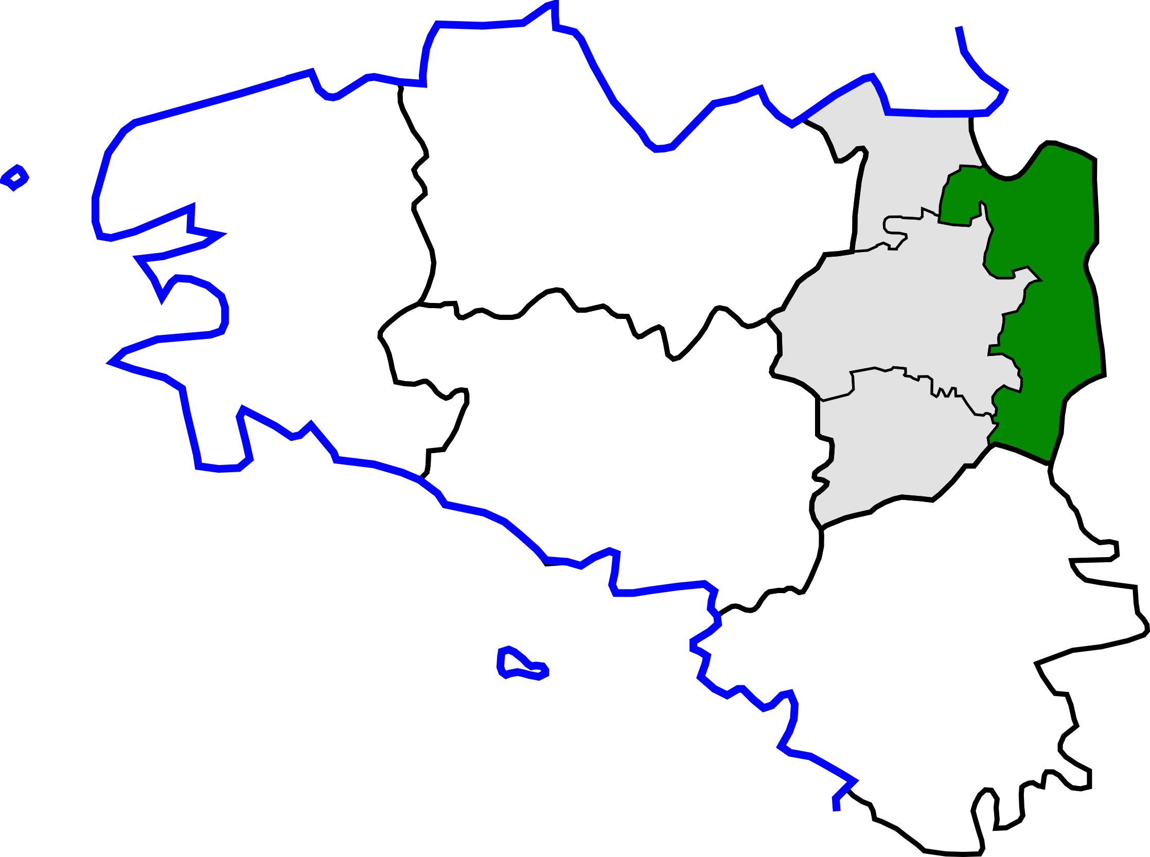 Map for localization of arrondissement of Fougères-Vitré in Brittany, after the administrative reorganization in October 2010.